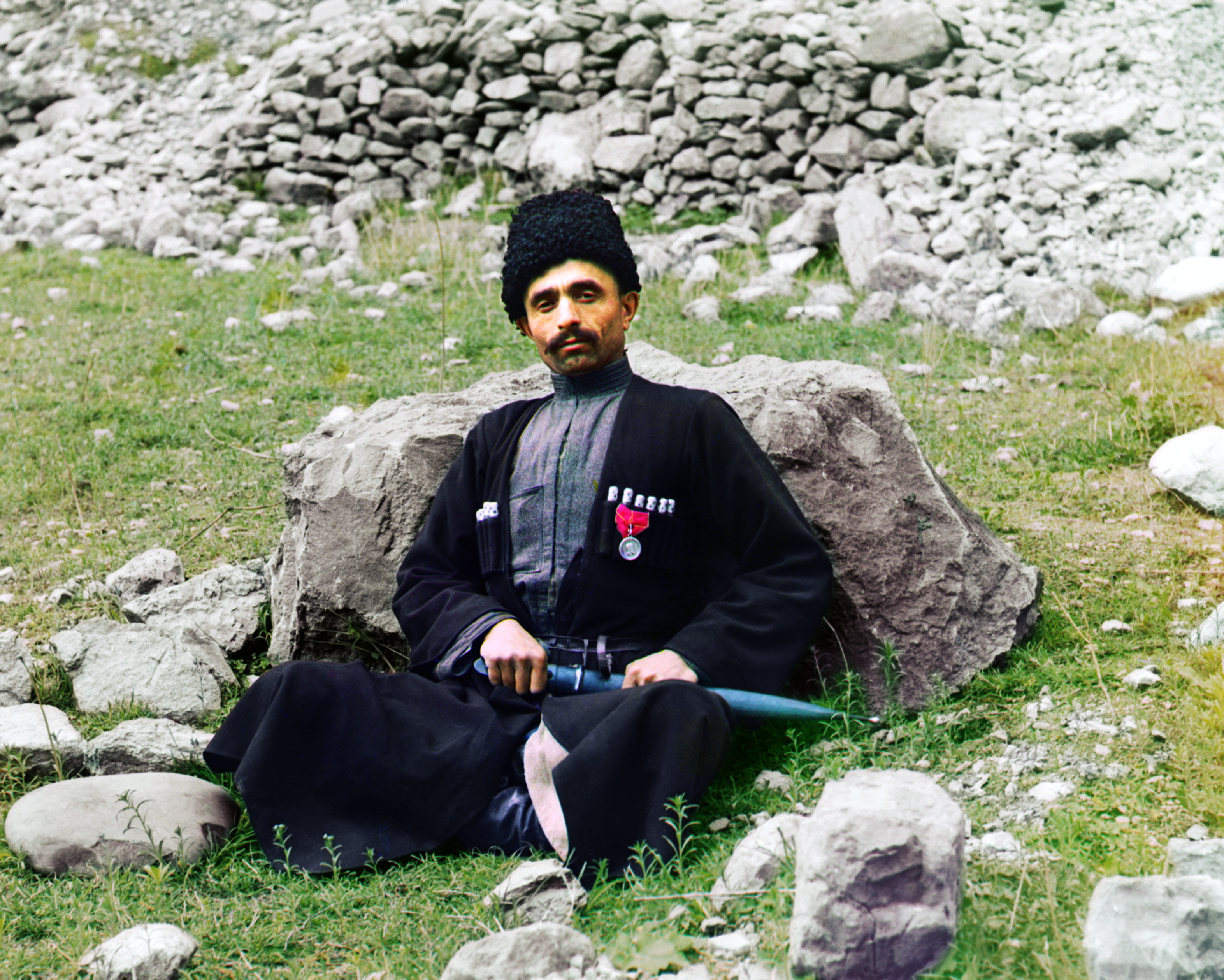 Sunni Muslim man wearing traditional dress and headgear, with a sheathed dagger at his side. Dagestan.